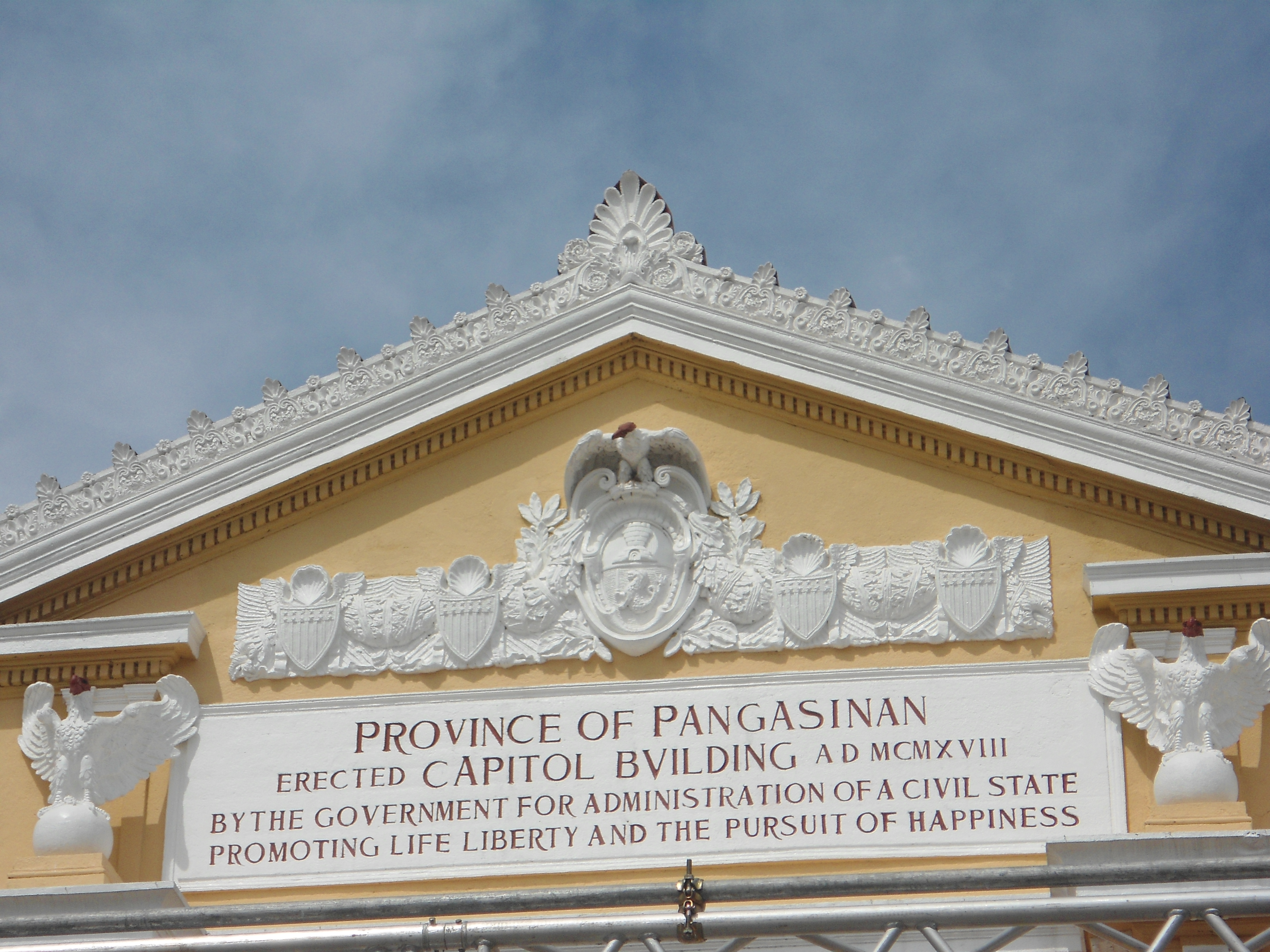 eagle statue in Capitol Building